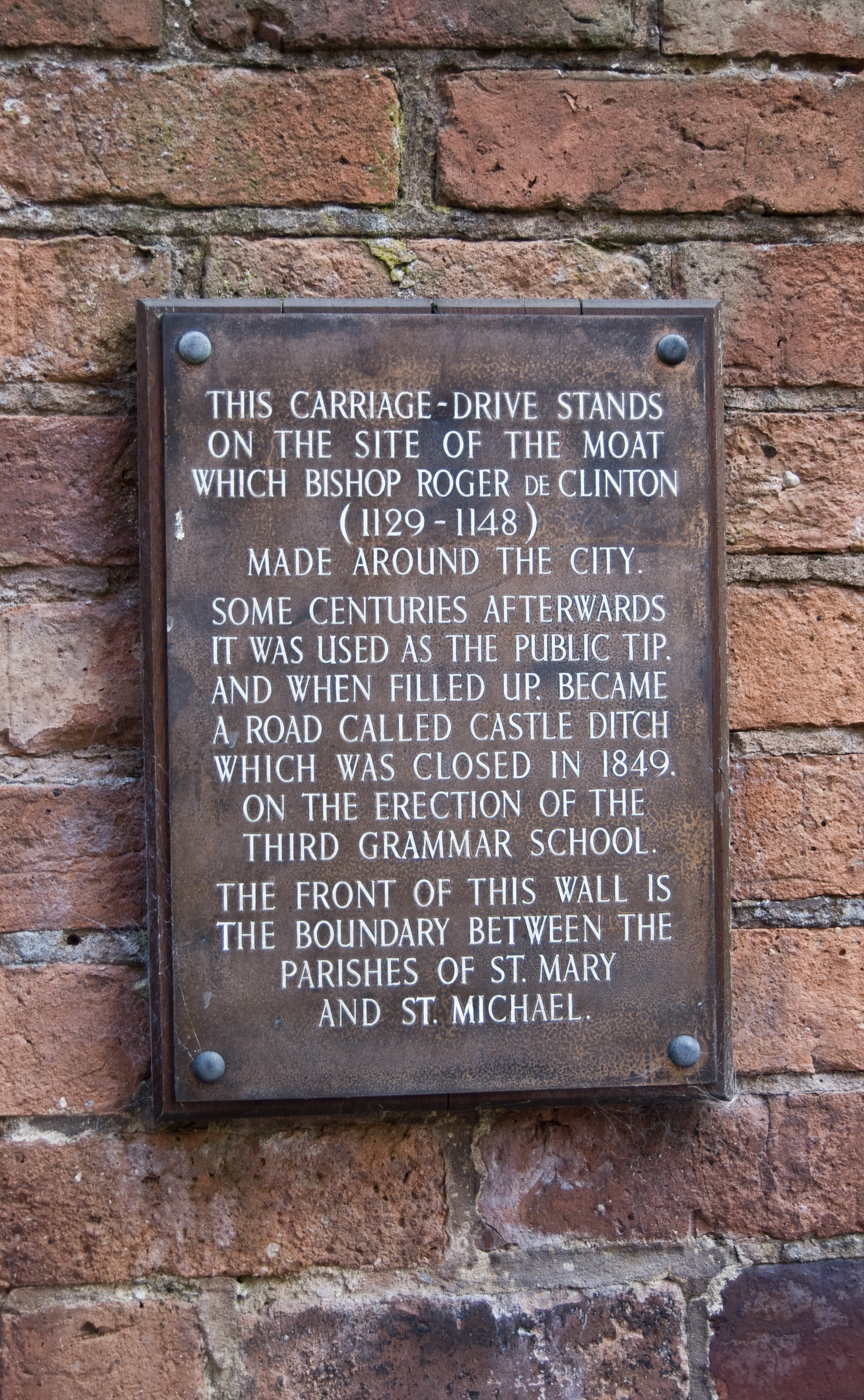 Plaque indicating the former site of the southern city walls around Lichfield